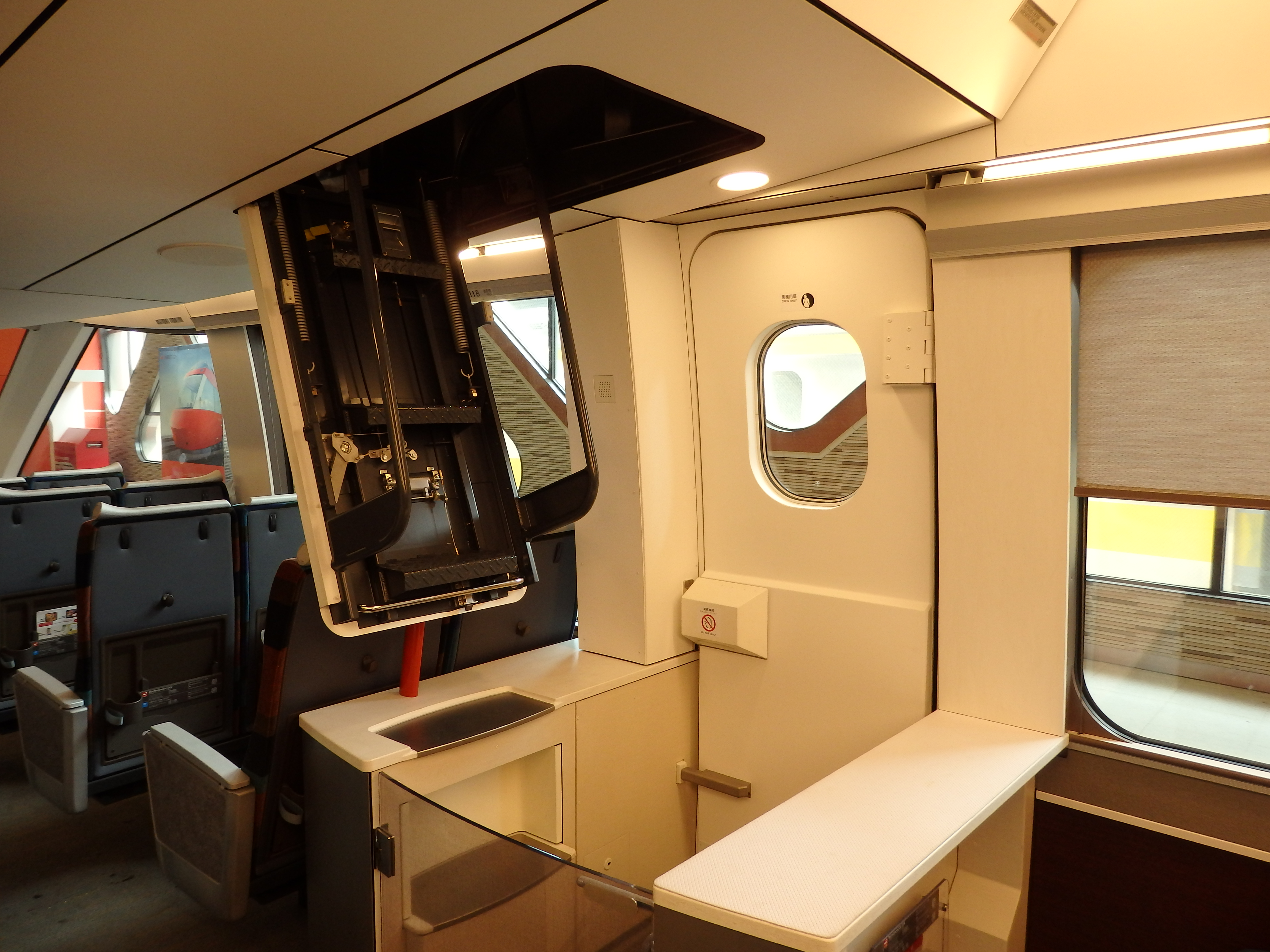 Ladder of Odakyu Elecrtic Railway type 70000.